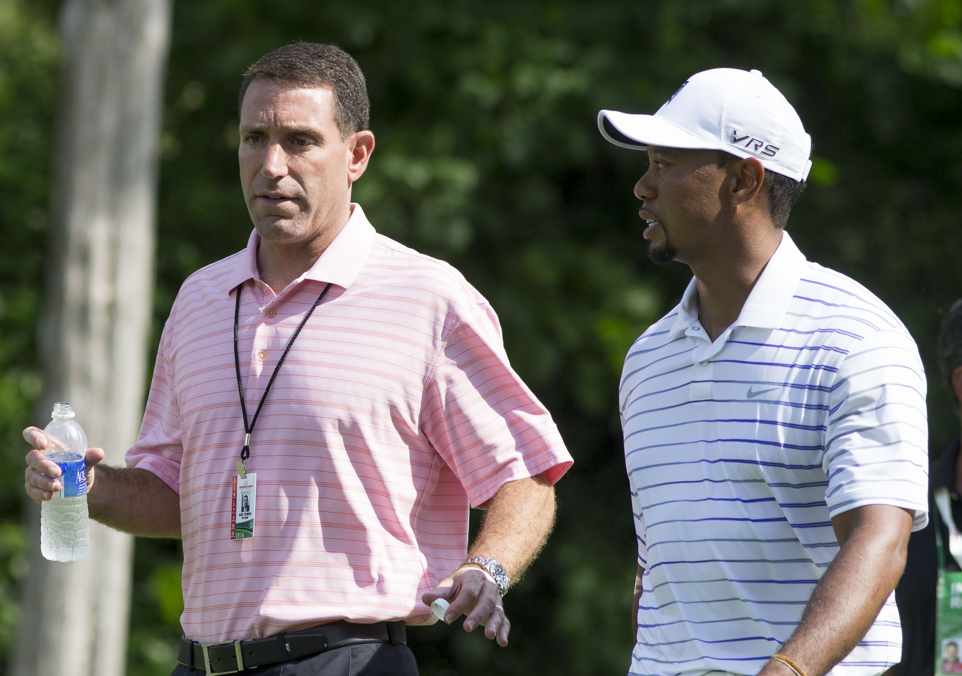 Tiger Woods at the Quicken Loans National golf tournament at Congressional Country Club on June 25, 2014 in Bethesda, Maryland.